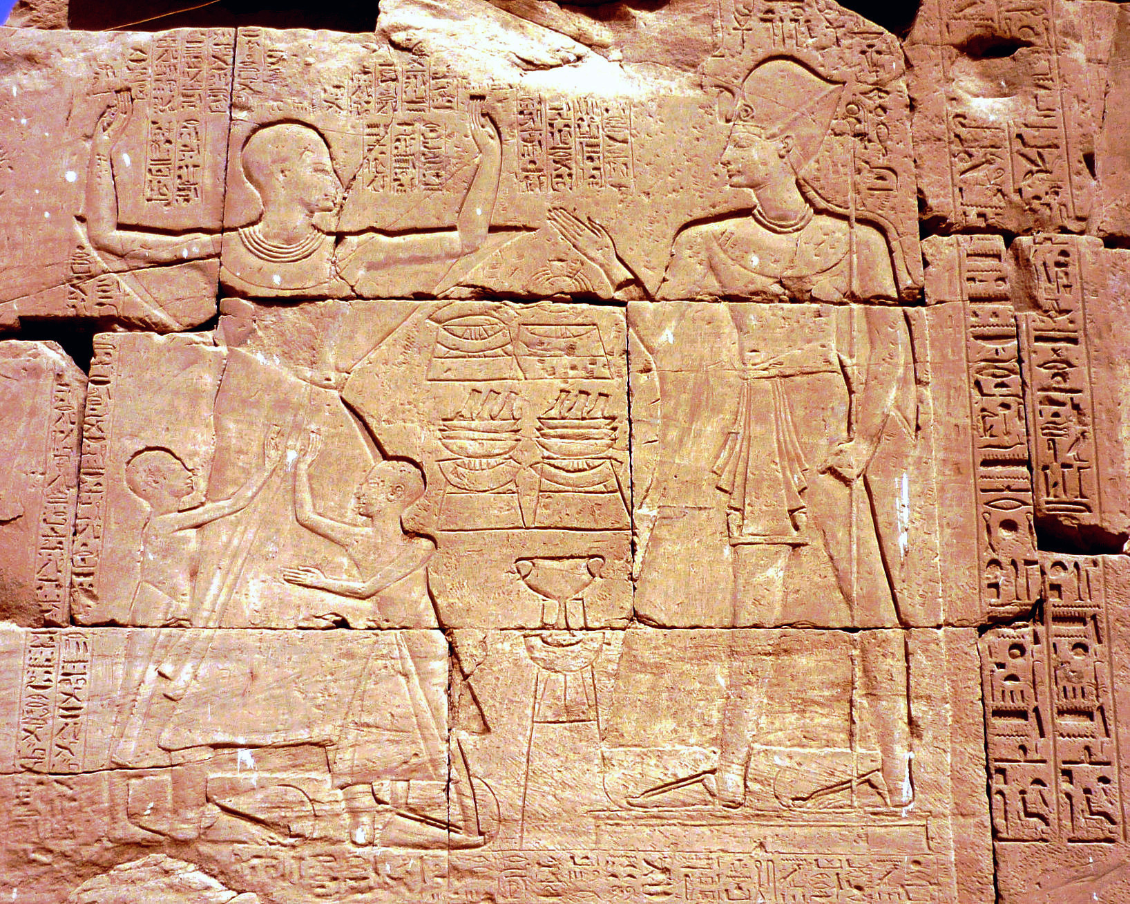 Amenhotep, high priest of Amun, and Ramses IX - Wall relief on second axis, Karnak temple of Amun-Ra, Egypt